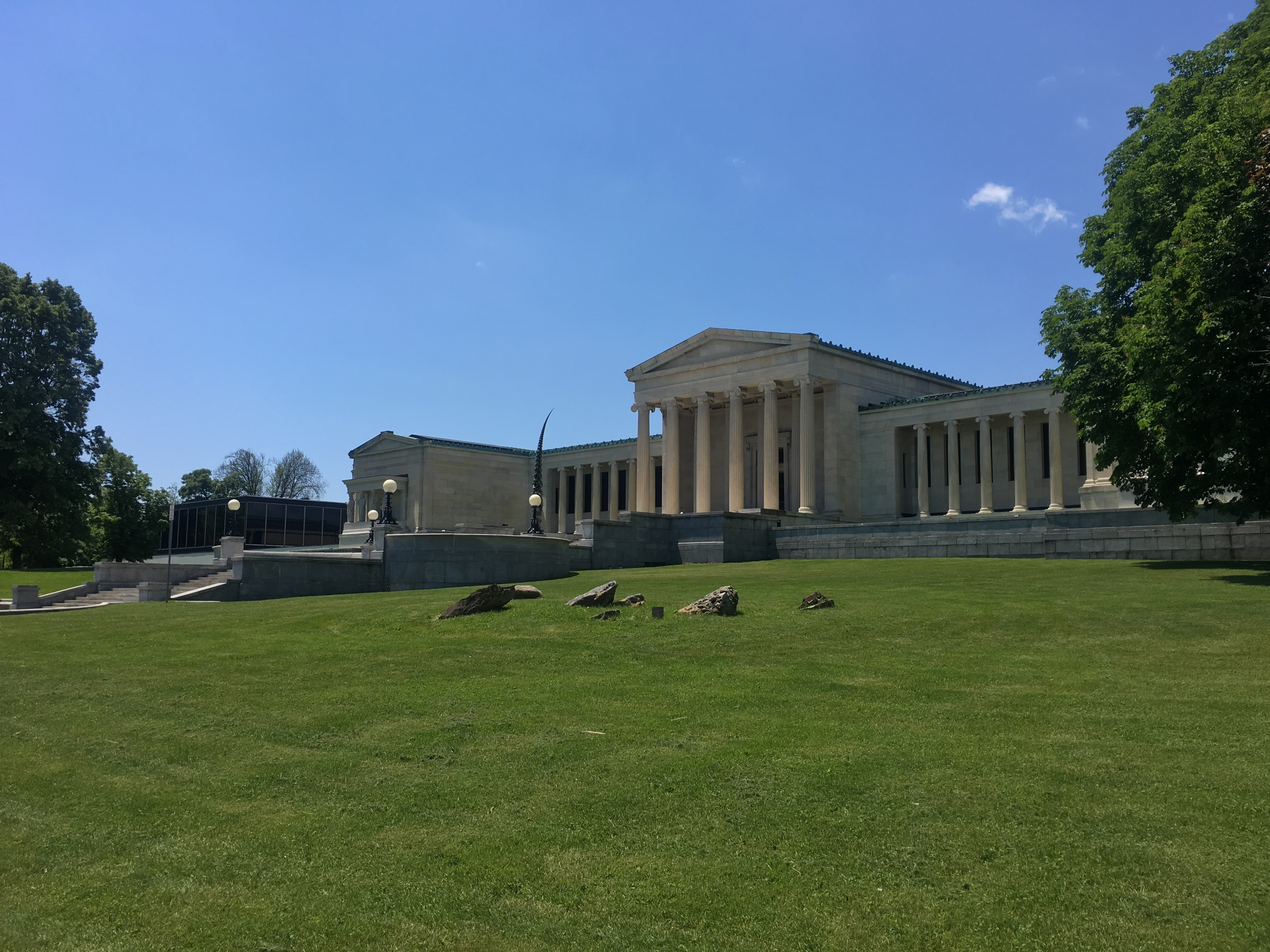 View of the Albright-Knox Art Gallery from the Lincoln Parkway side: Green & Wicks' original building at center and right; Gordon Bunshaft's 1962 annex at far left.